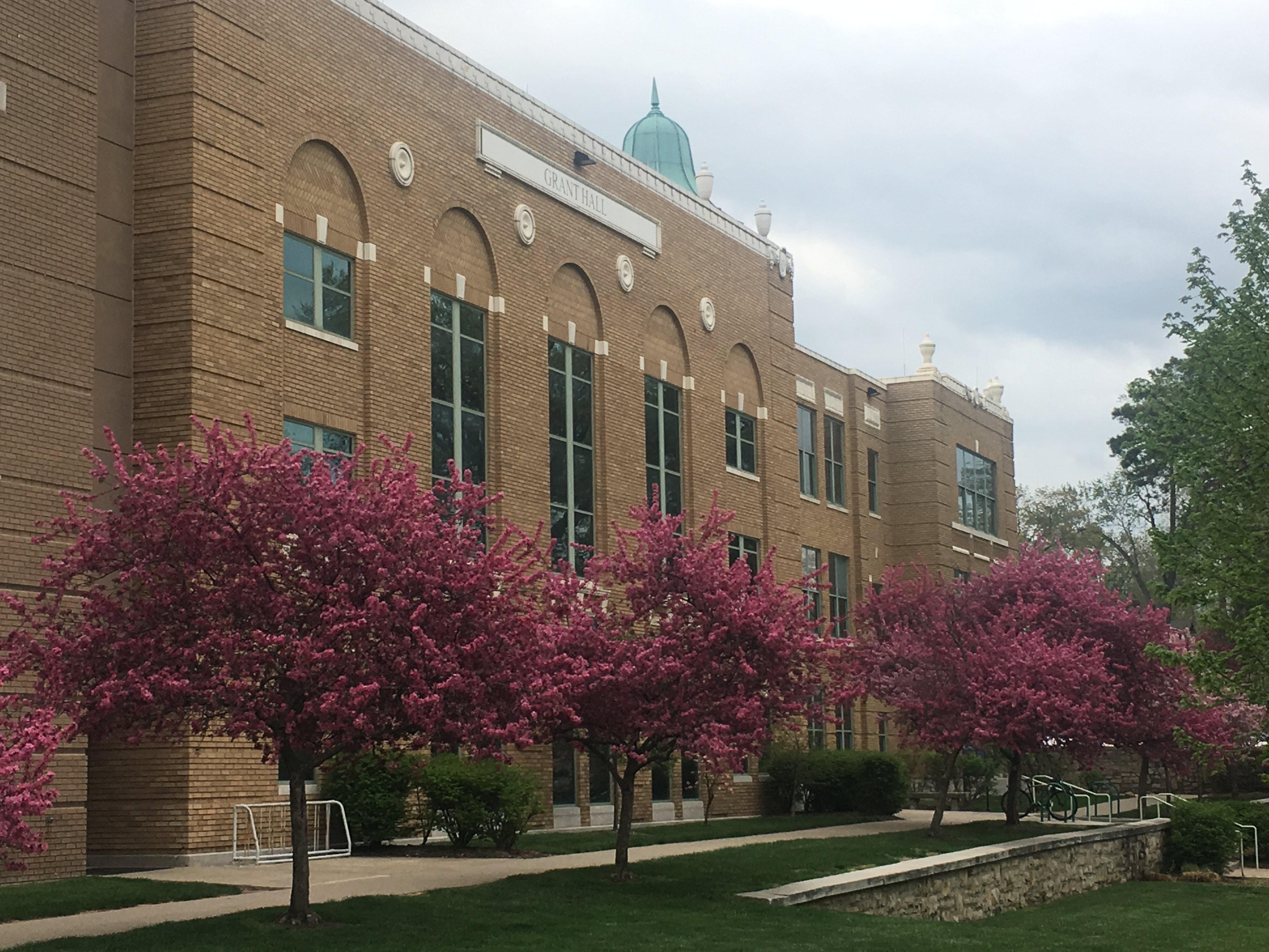 University of Missouri, Kansas City